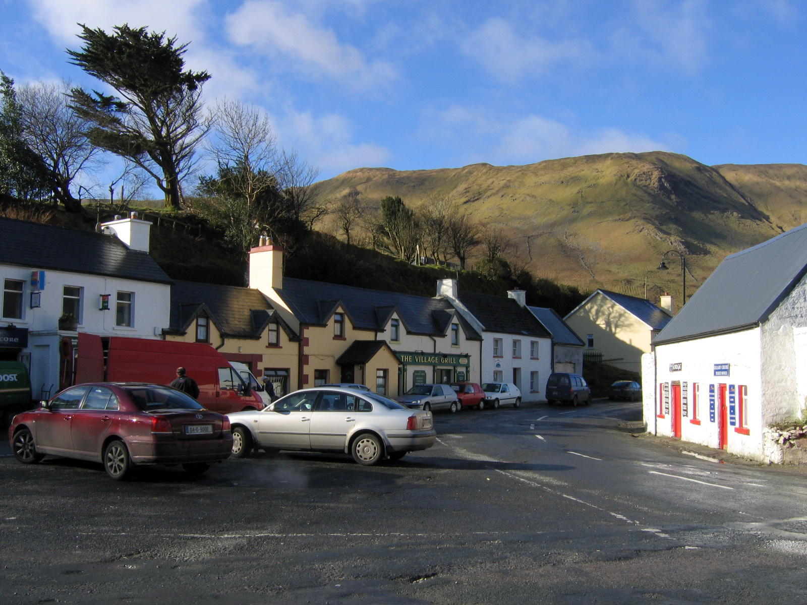 Leenaun, County Galway, Republic of Ireland.